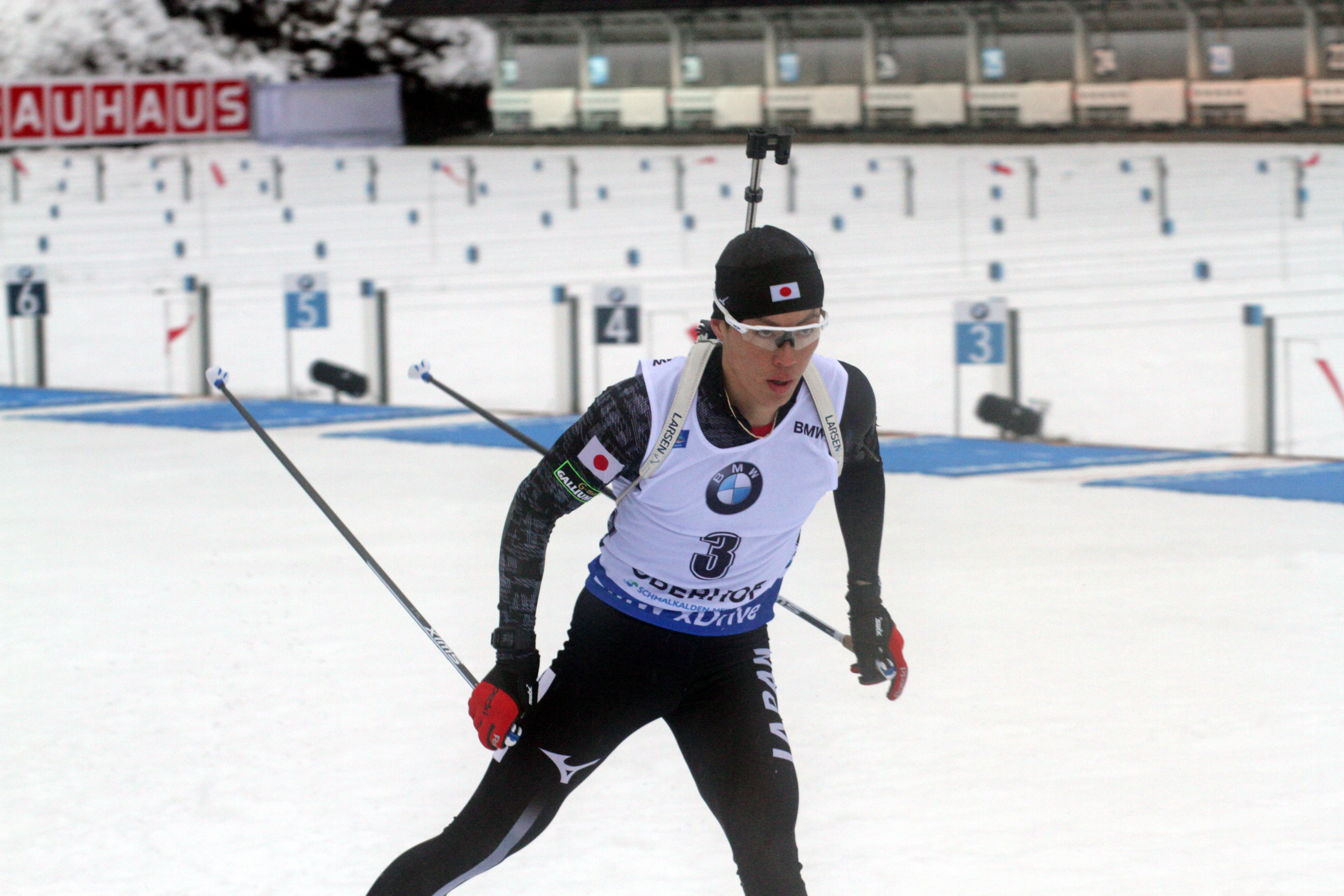 2018 Oberhof Biathlon World Cup - Sprint Men